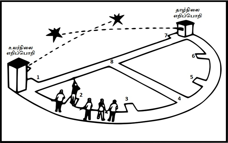 People skeet shooting